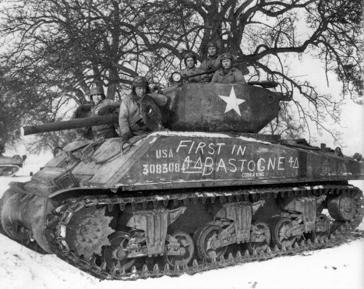 The 'Cobra King' crew -- 1st Lt. Charles Boggess, Cpl. Milton Dickerman and Pvts. James G. Murphy, Hubert S. Smith and Harold Hafner -- pose for a celebratory photo in the vicinity of Bastogne, Belgium shortly after the tankers led the armor and infantry column that liberated the city in December 1944.